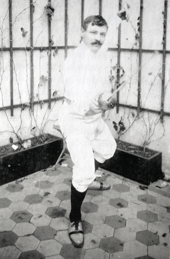 Portrait of Milan Neralic, bronze medal winner in the Master's sabre at 1900 Summer Olympics